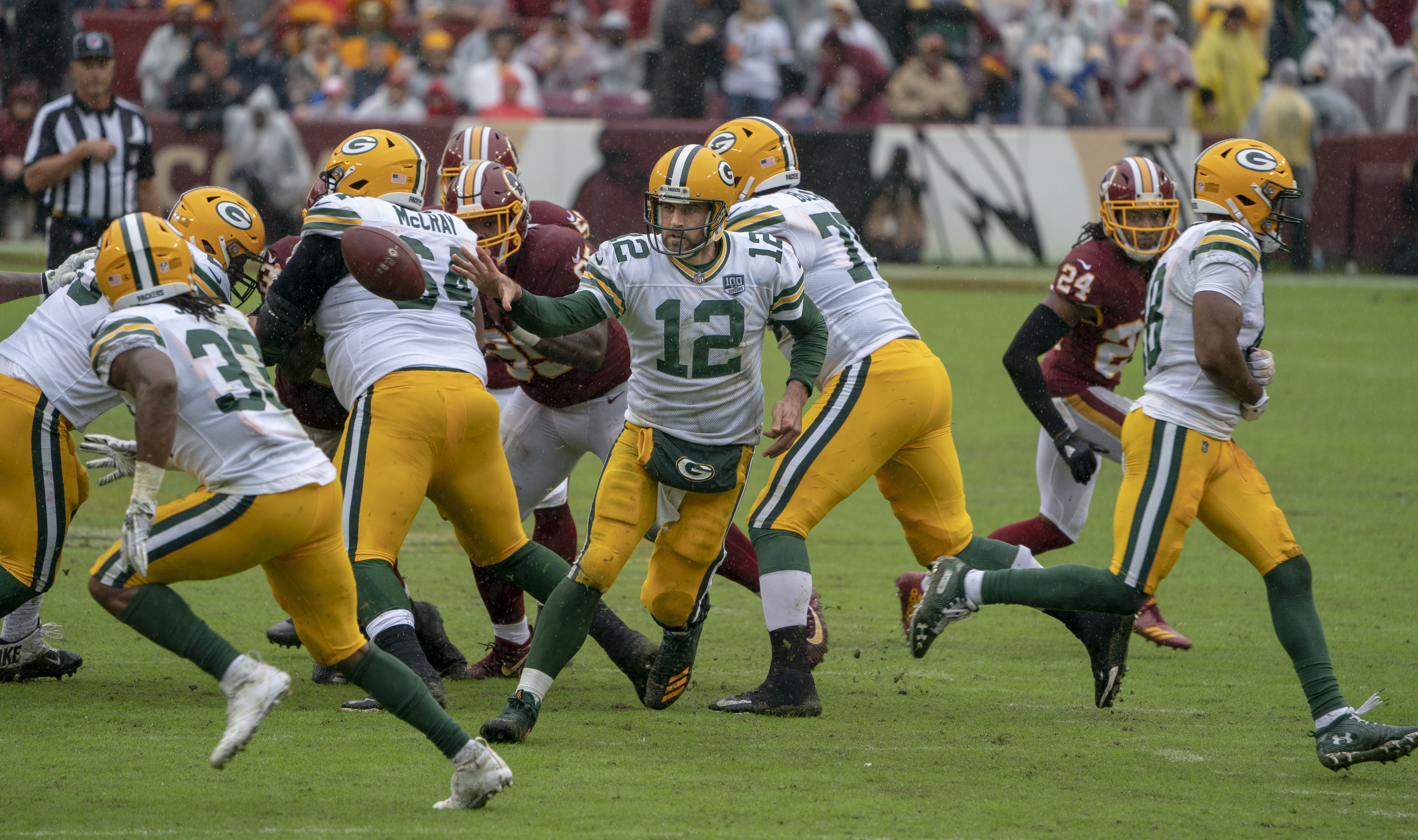 Aaron Rodgers of the Green Bay Packers during a game against the Washington Redskins at FedExField on September 23, 2018 in Landover, Maryland.